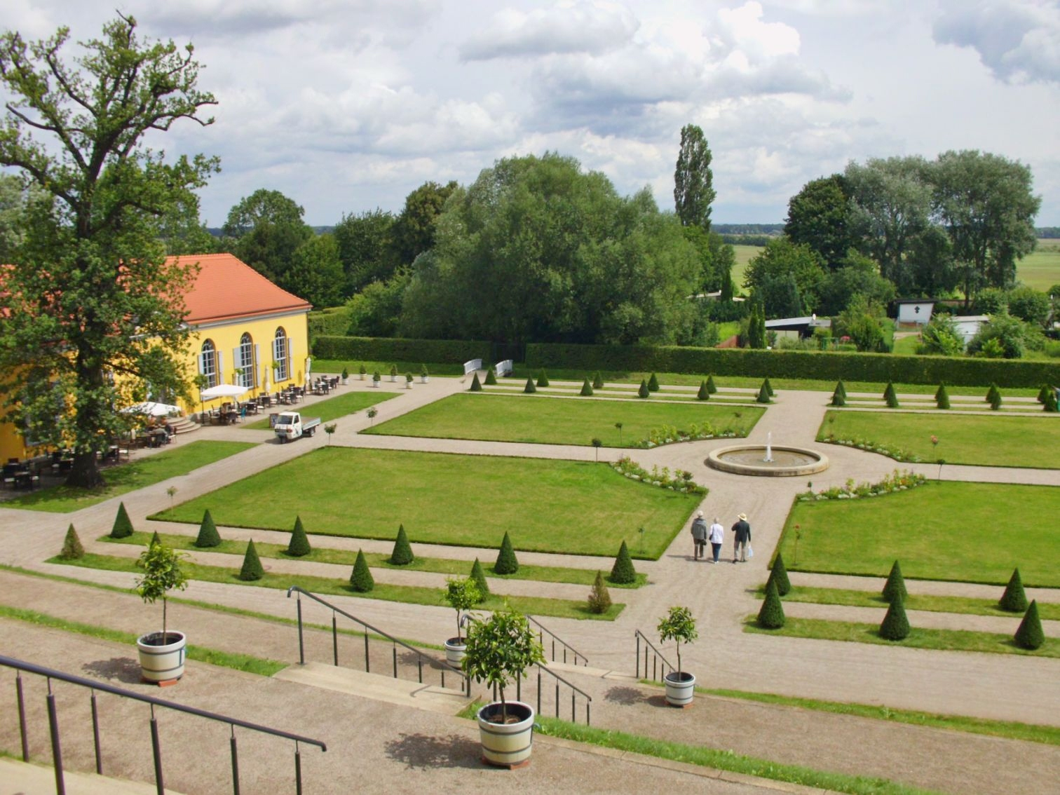 Monastery garden with orangery (status 2012)